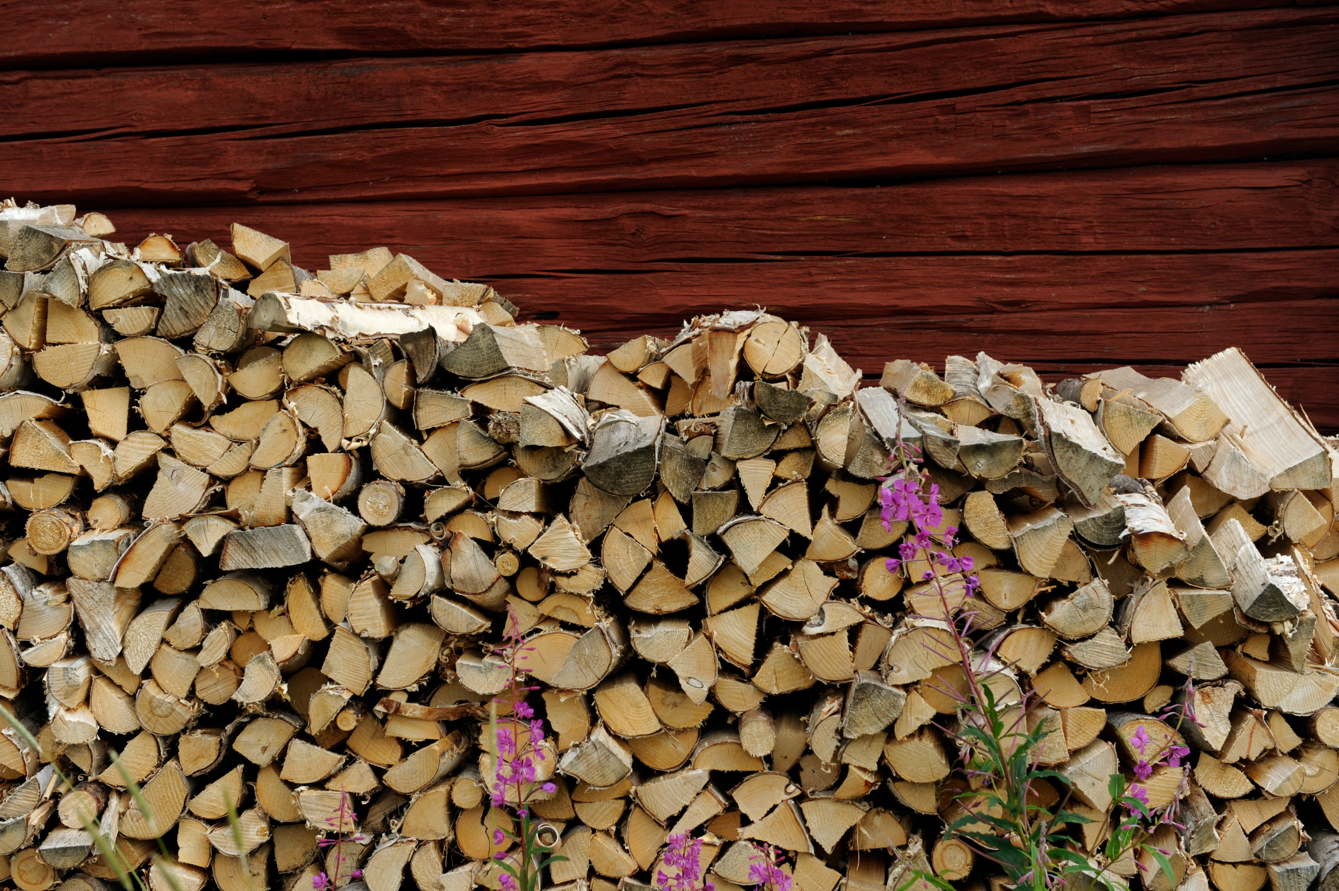 Vedstapel Keywords: Agriculture and Forestry, Sweden Data-uid: 5c1b8a2b3f4081d48be70580f2df63c9